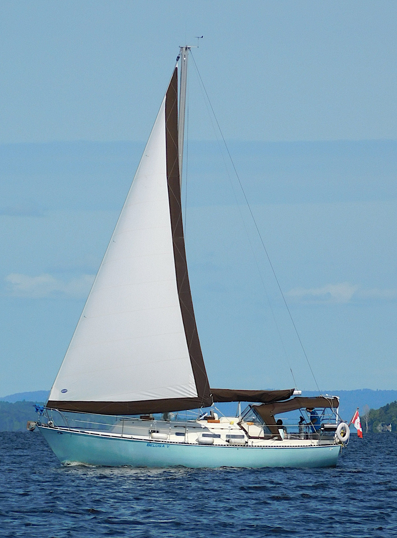 An Ontario 32 sailboat named Beluga V.